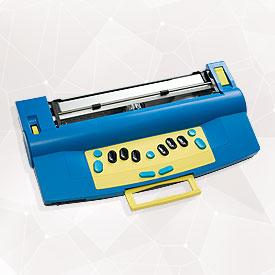 A Mountbatten Braller